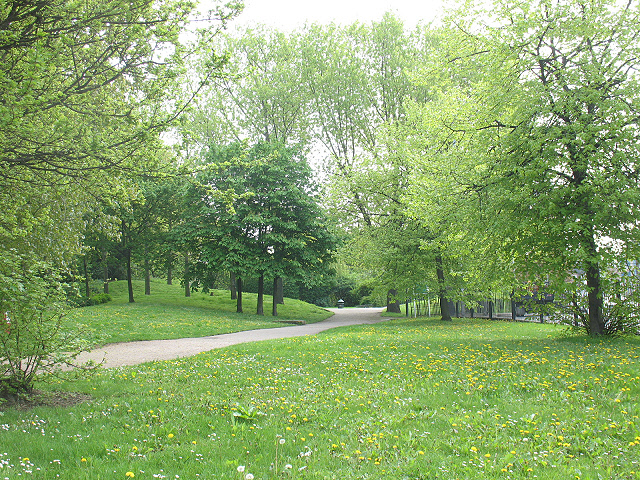 West end of Folkestone Gardens Folkestone Gardens is a linear urban park, about 400m long and nowhere more than 100m wide, alongside the railway viaduct. This is the western end adjacent to Trundleys Road. The path shown here is part of the London Cycle Network.